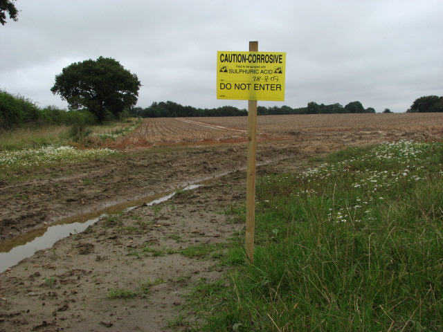 Entrance into a field with a caution The field was sprayed with sulphuric acid. According to the PSD (Pesticides Safety Directorate - an Executive Agency of the Department for Environment, Food and Rural Affairs, i.e. Defra), the application of sulphuric acid to growing potato plants is carried out because the killing off of potato shoots makes the mechanical lifting of tubers easier. The procedure also induces the plant to move more resources to the tubers, which results in a burst of growth prior to harvesting. For more information